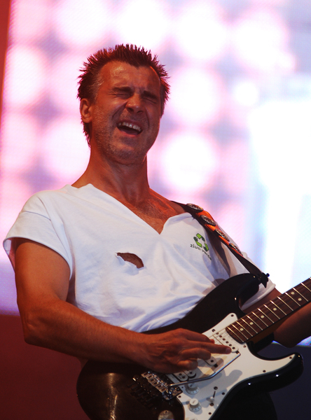 Dan Iliescu (from Timpuri Noi band), at Green Day Concert in Revolution Square, Bucharest